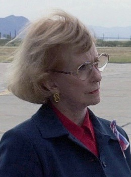 Arizona Governor Wikipedia:Jane Dee Hull during her visit to the Air National Guard's alert detachment facility